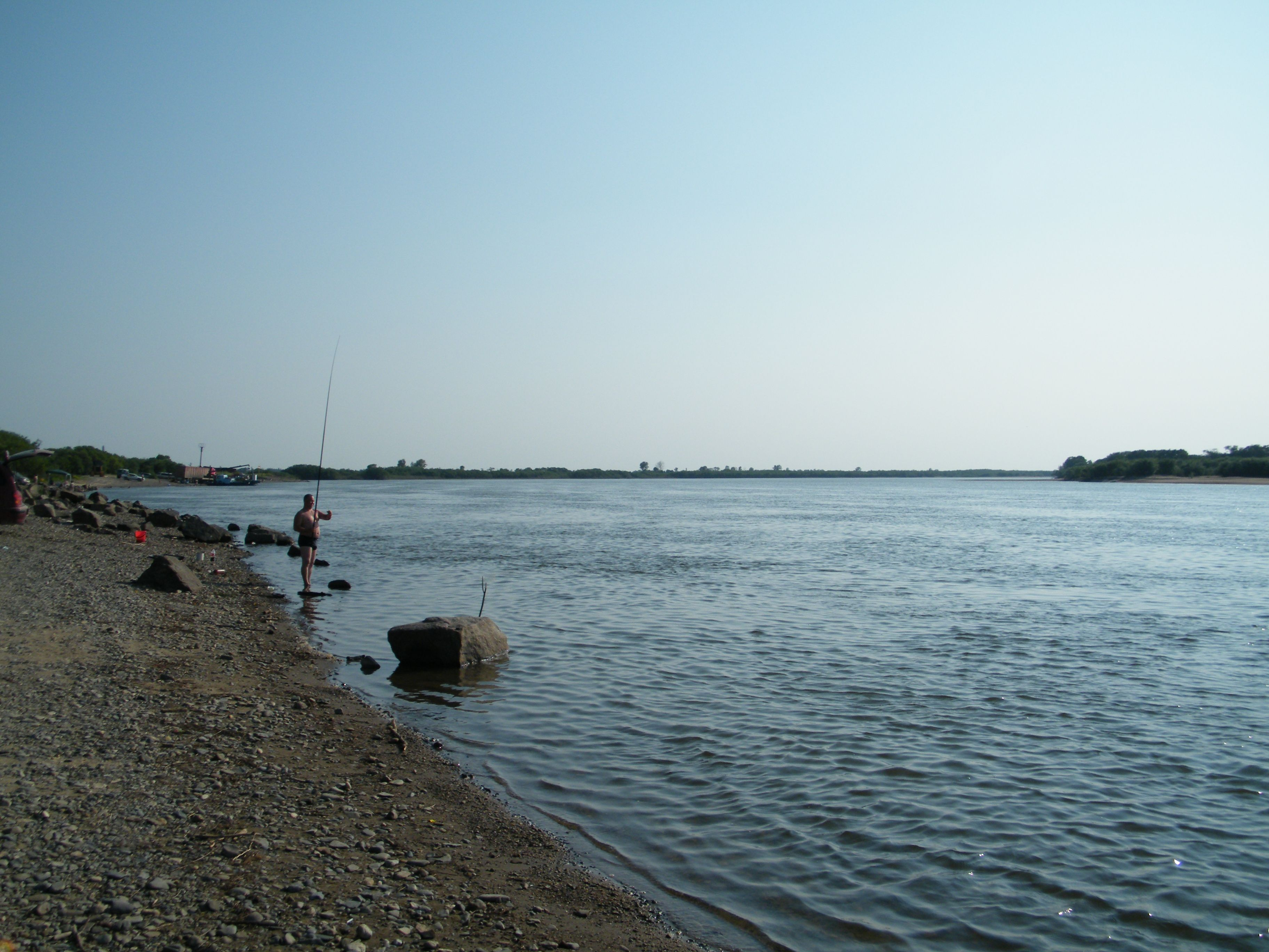 Tunguska EAO River